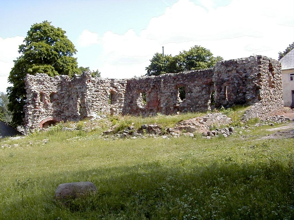 Limbaži Castle ruins, Latvia